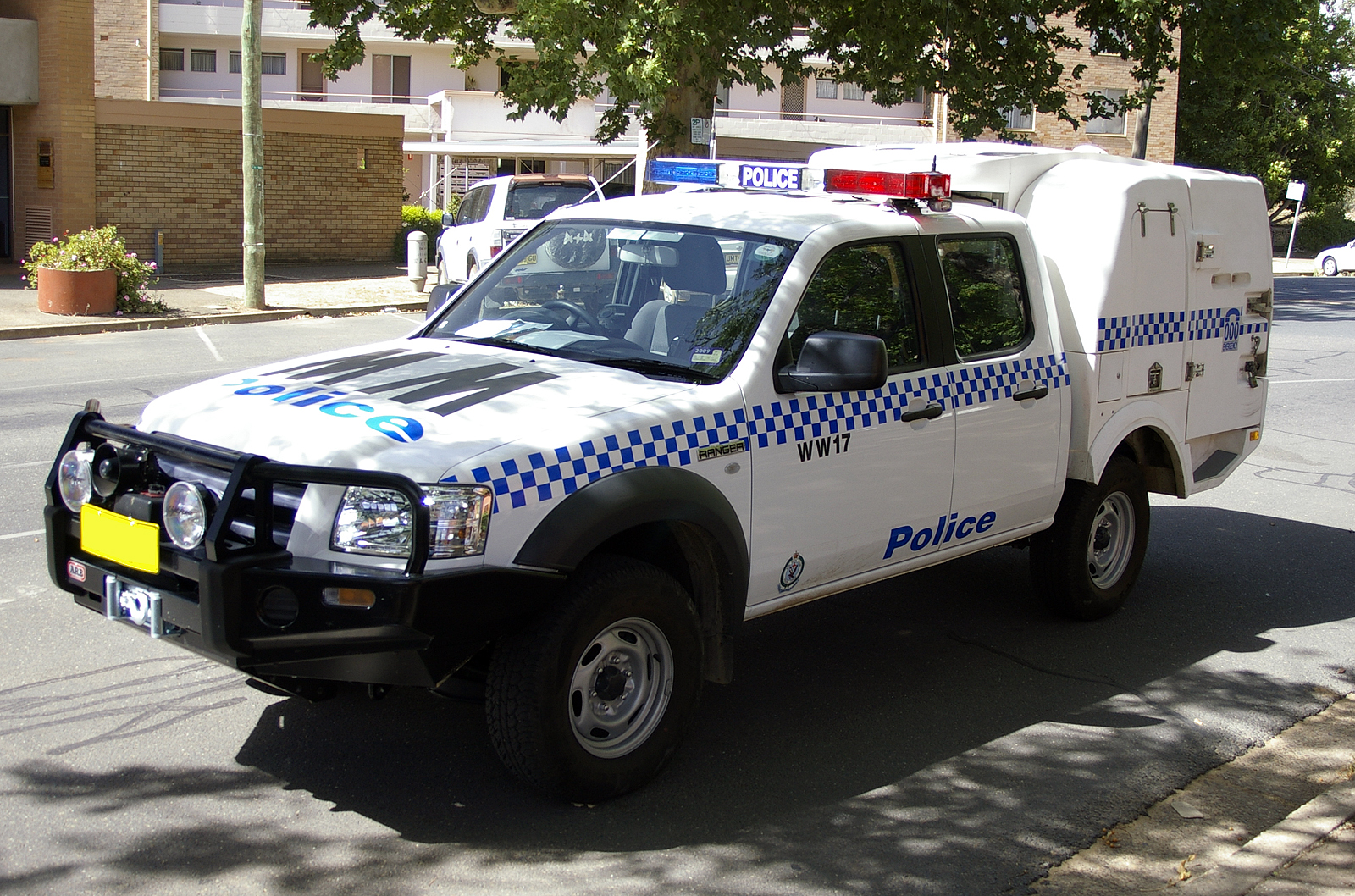 New South Wales Police Force 2008 Ford Ranger PJ XL Crew Cab.